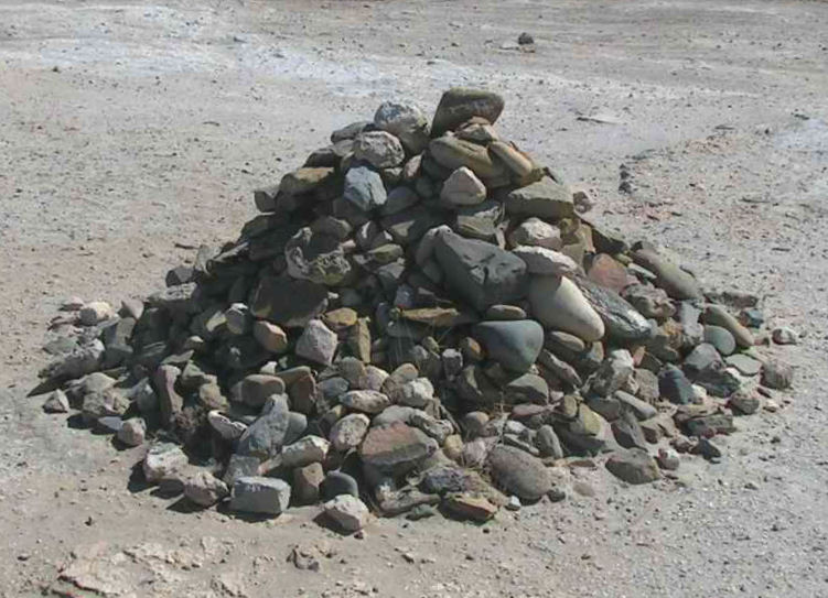 Pile of rocks started by Nelson Mandela and added to by former prisoners of Robben Island Prison, South Africa